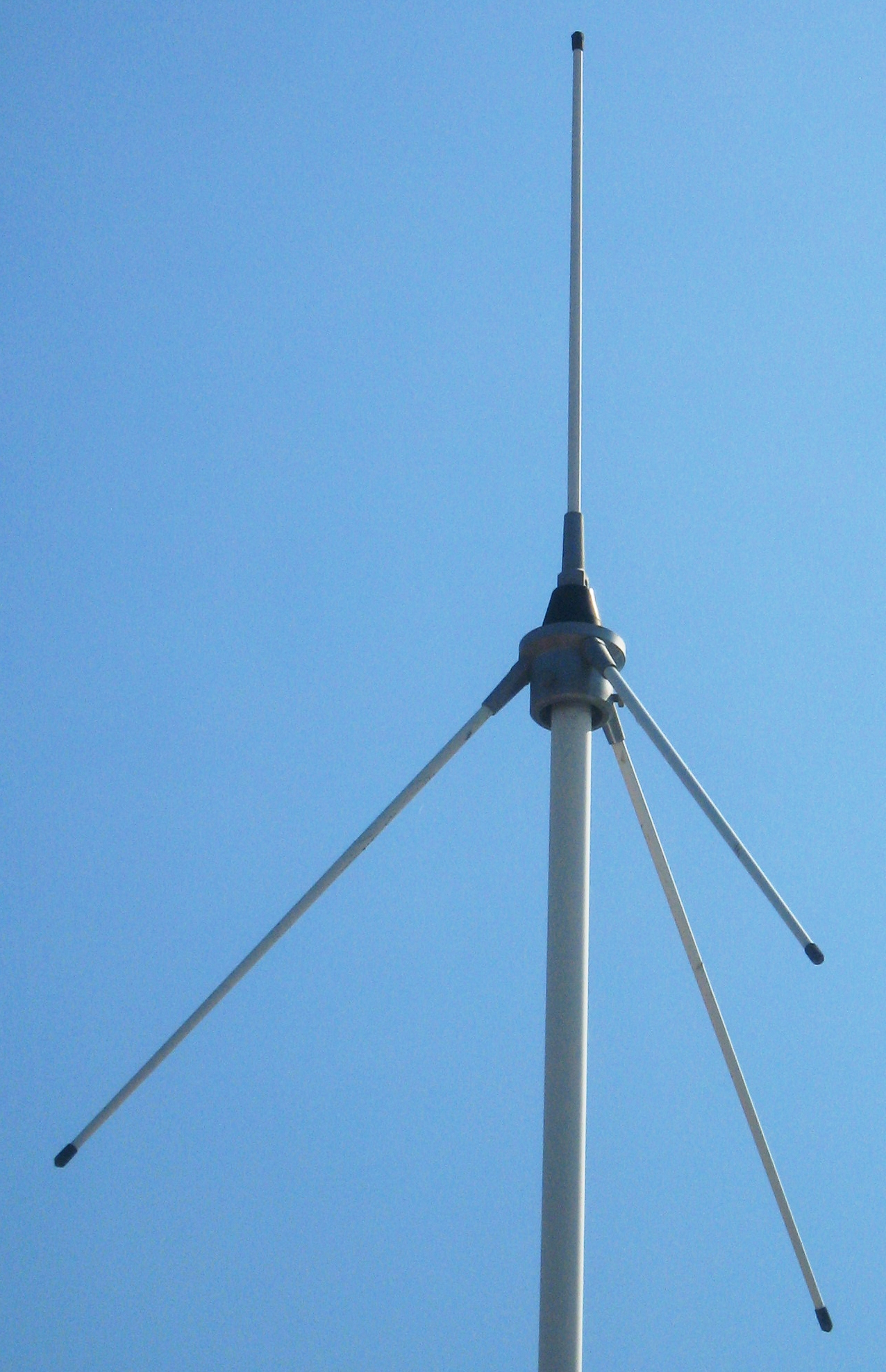 A VHF ground plane antenna for 156 to 162 MHz. The vertical wire functions as a quarter-wave monopole antenna, while the downward sloping wires serve as a ground plane for the monopole. The downward slope of the ground plane wires serves to increase the characteristic impedance of the antenna to make it a good match for the 50 ohm coaxial cable feedline.